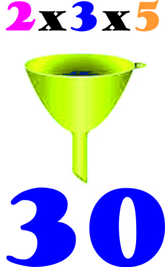 30 is the first sfenic number.